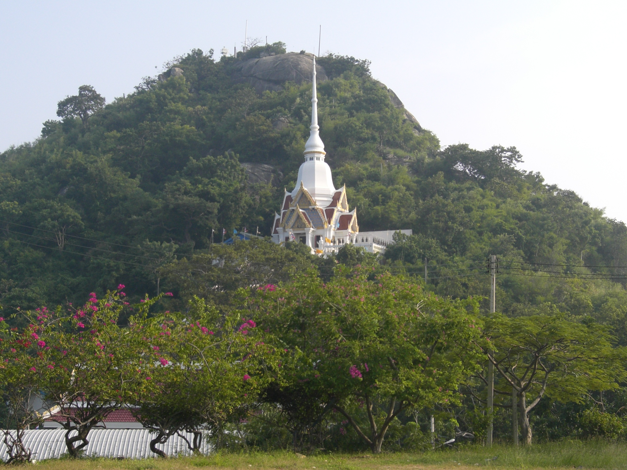 Tempel on top of th Takeap rock south of Hua Hin